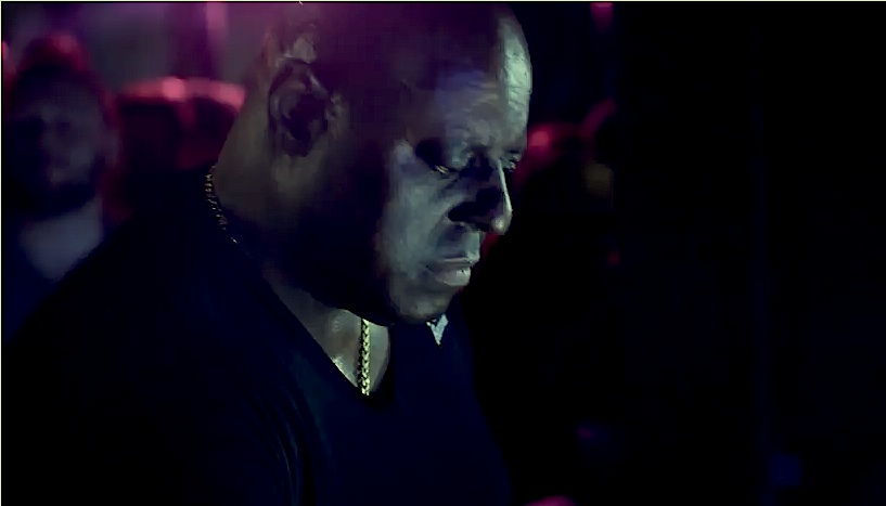 Tony Humphries (public domain photo)